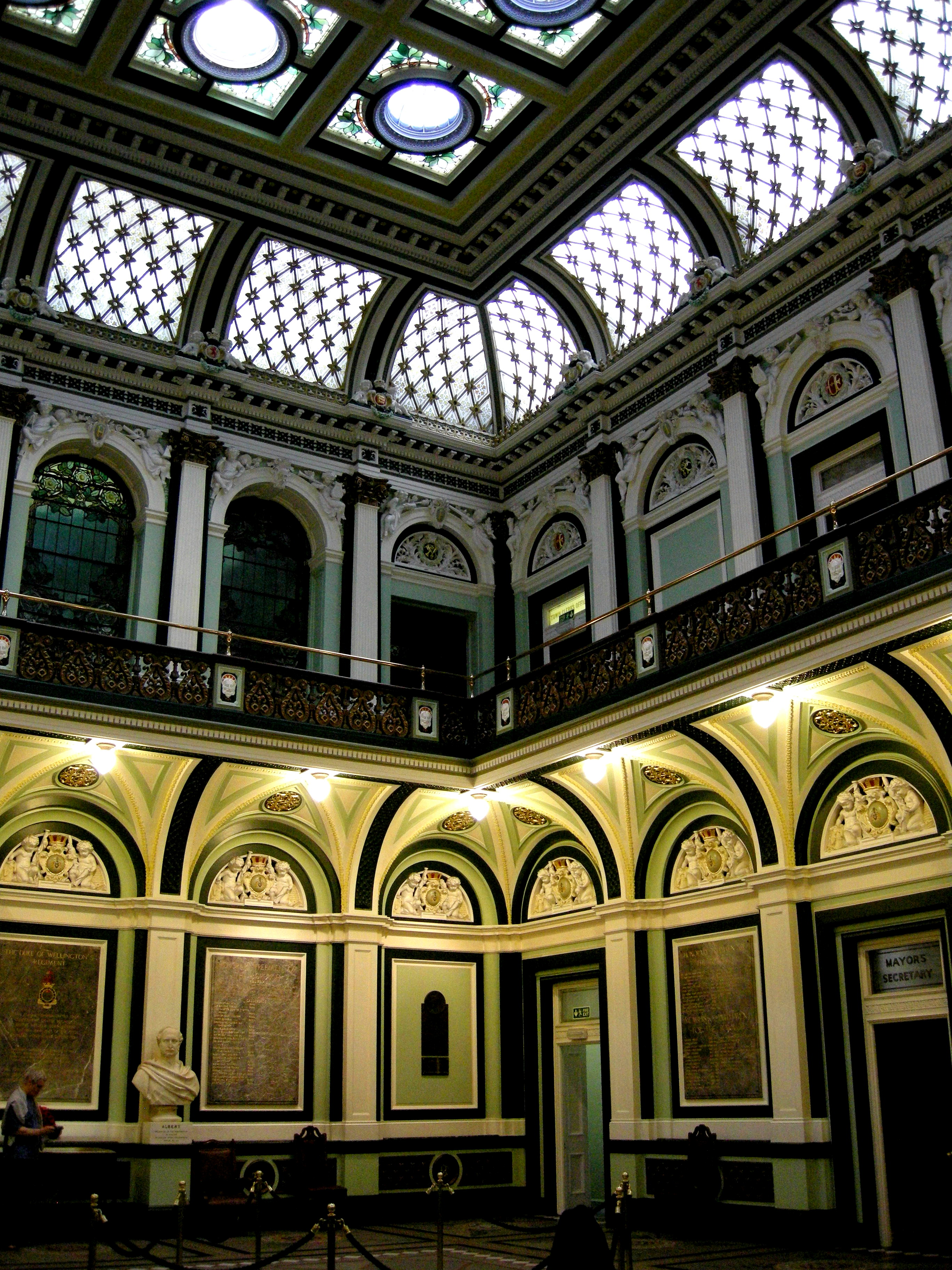 Interior of the Town Hall, Halifax, West Yorkshire, England